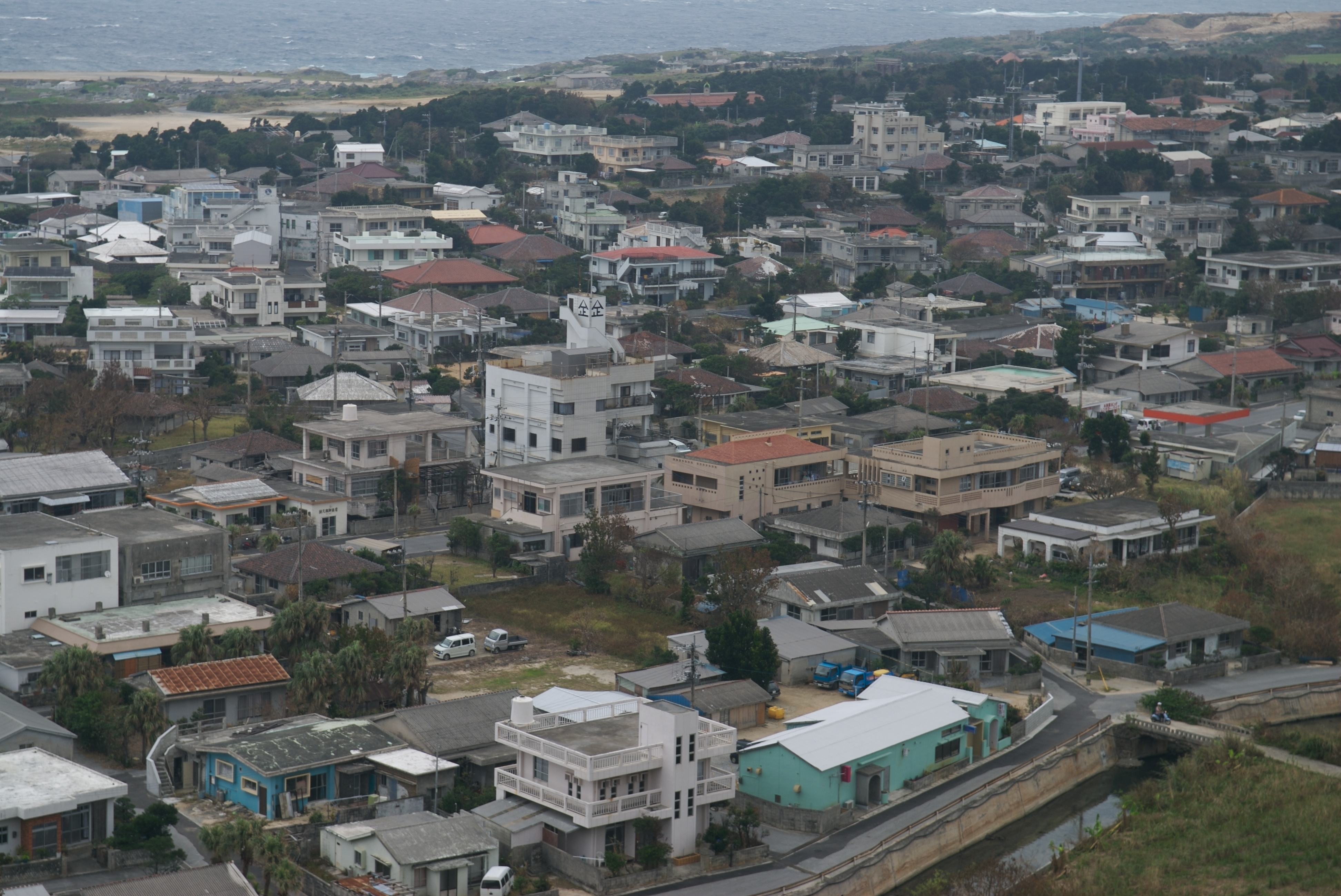 Sonai, Yonaguni